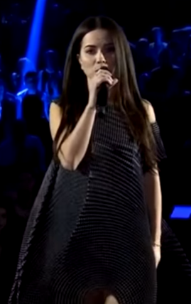 Shot of Inna performing a medley of "Striga!" and "Diggy Down" on Romanian show Vocea Romaniei 2014.